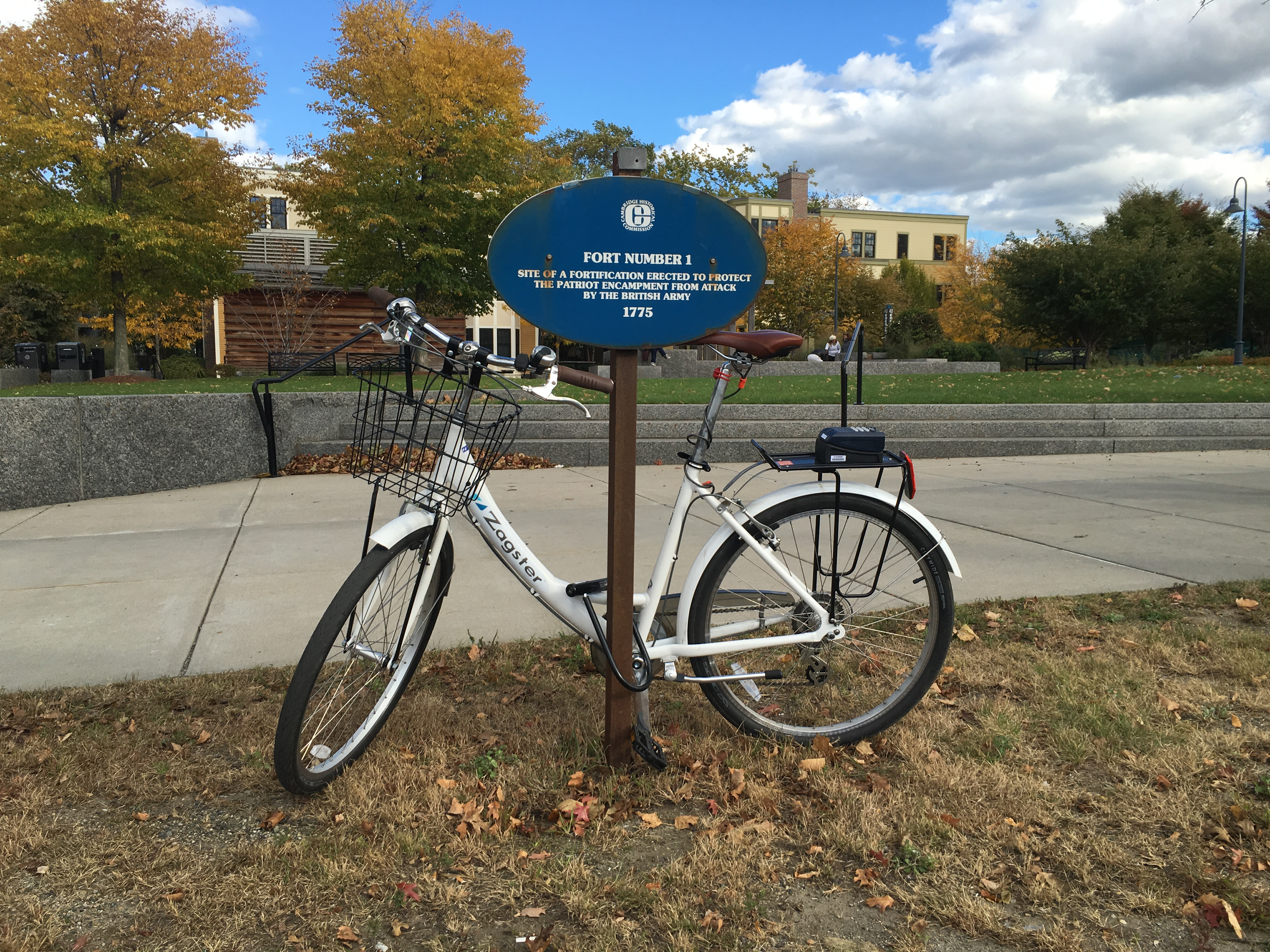 A Zagster bike secured for a stopover at the Head of the Charles River Regatta in Cambridge, MA